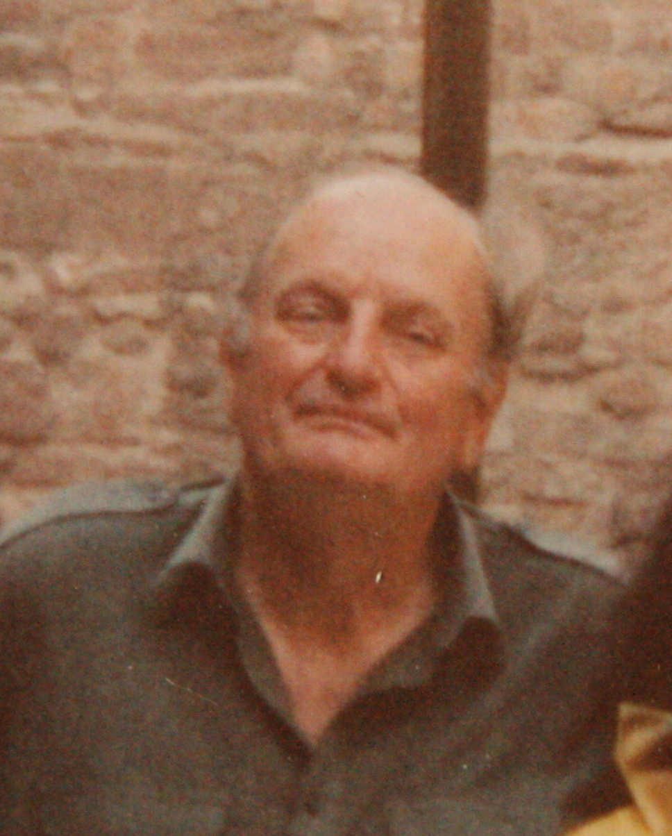 H. C. Robbins Landon in Cardona (Catalonia); September 1989